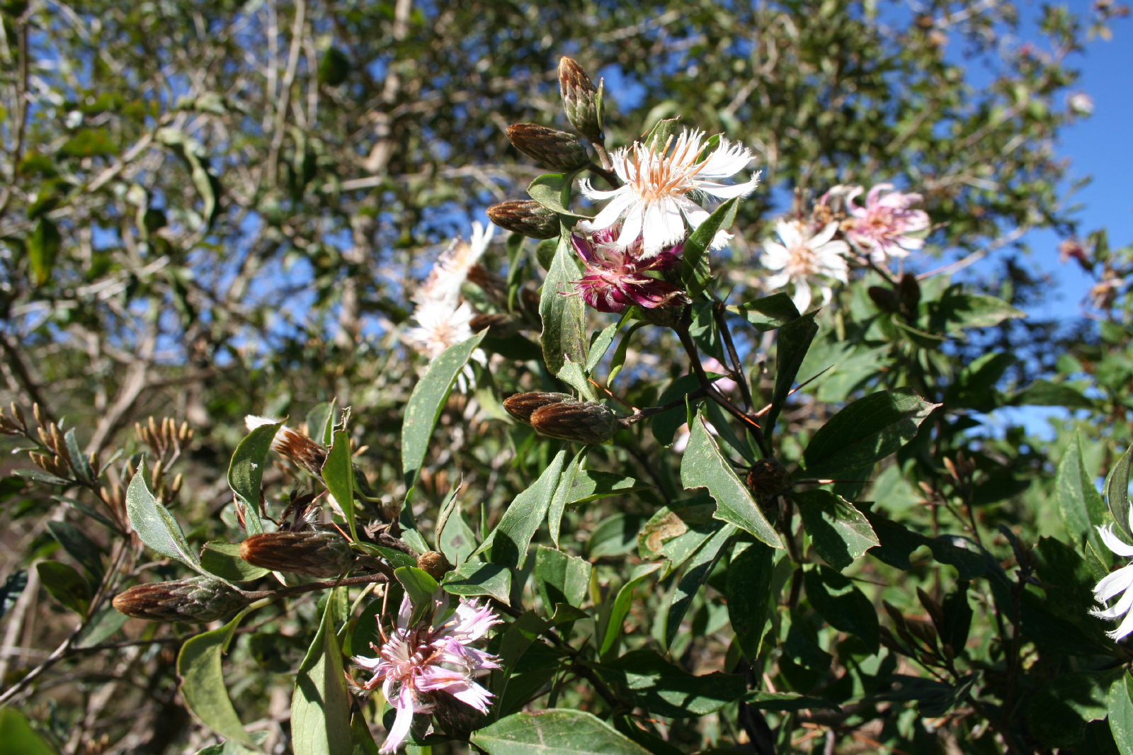 Barnadesia sp. growing wild near a flood plain just outside of Nuevo Mundo, southern Chuquisaca Department, Bolivia.